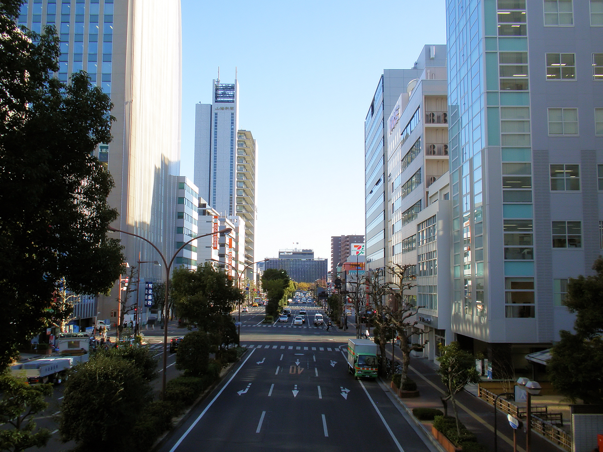 Shiyakusho-suji, Kita-ku, Okayama.